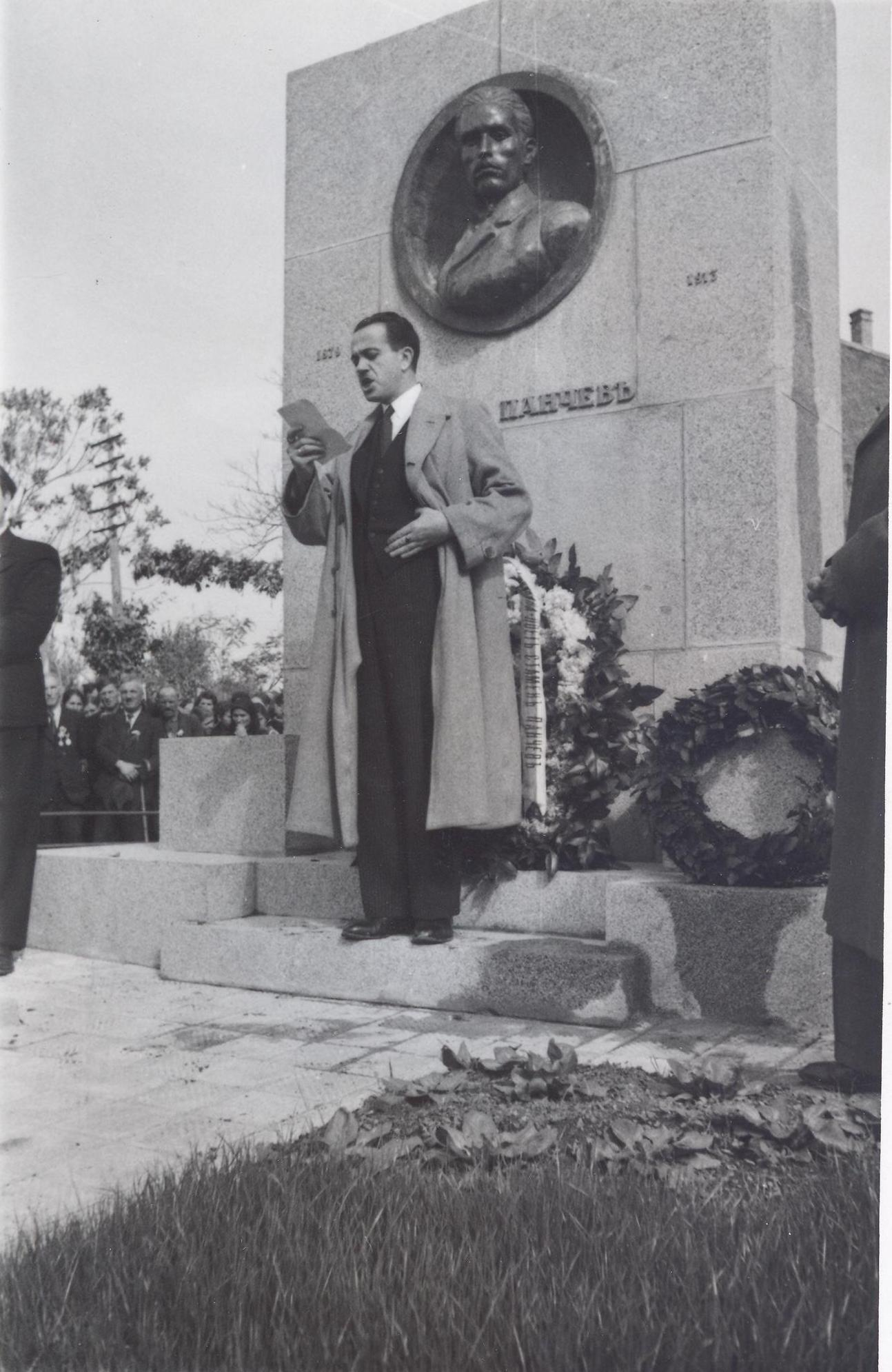 Bulgarian writer Svetozar Dimitrov (Zmey Goryanin).